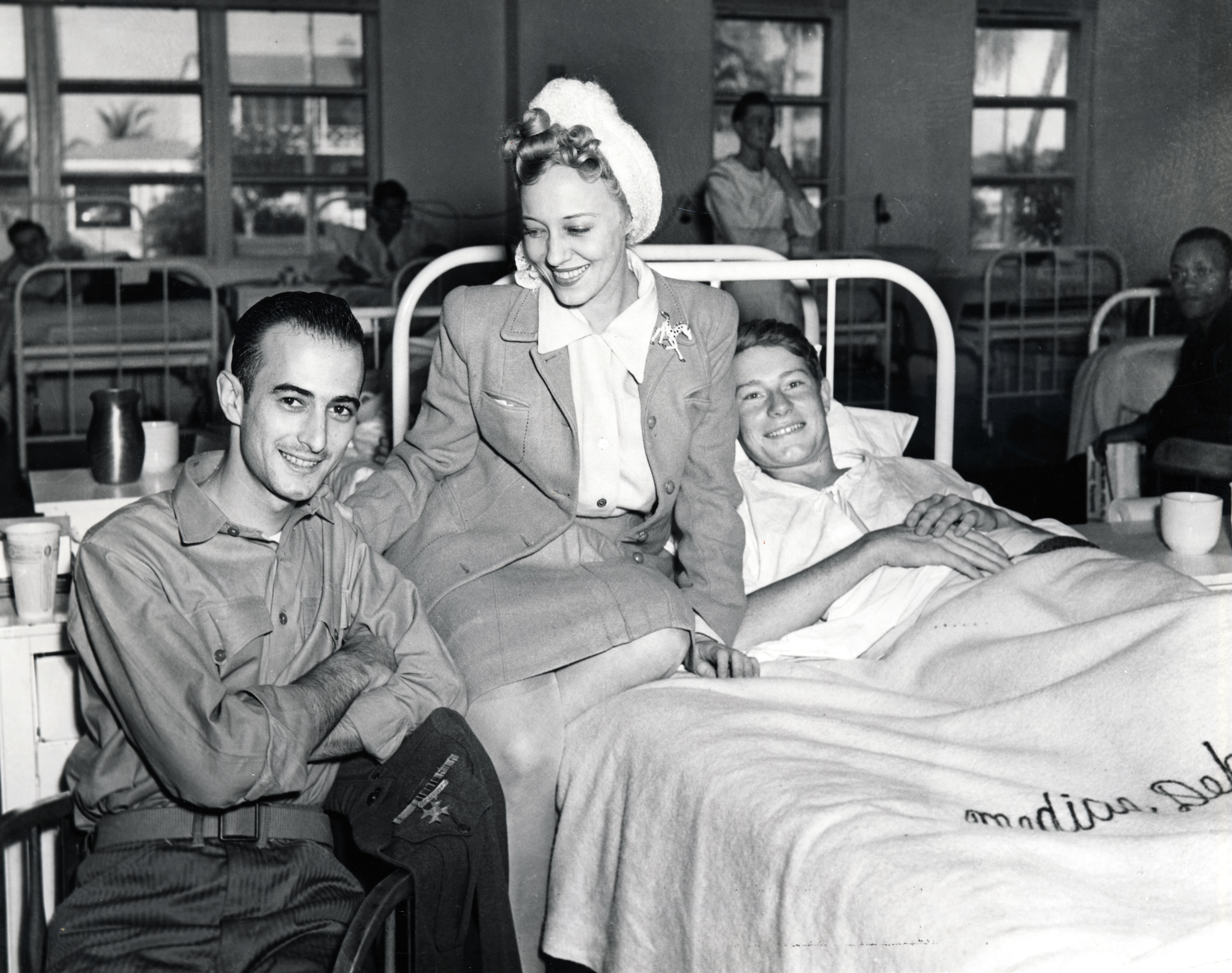 Dancer Sally Rand visiting the Naval Hospital in Key West in the 1940s. Photo from the Monroe County Library Collection.